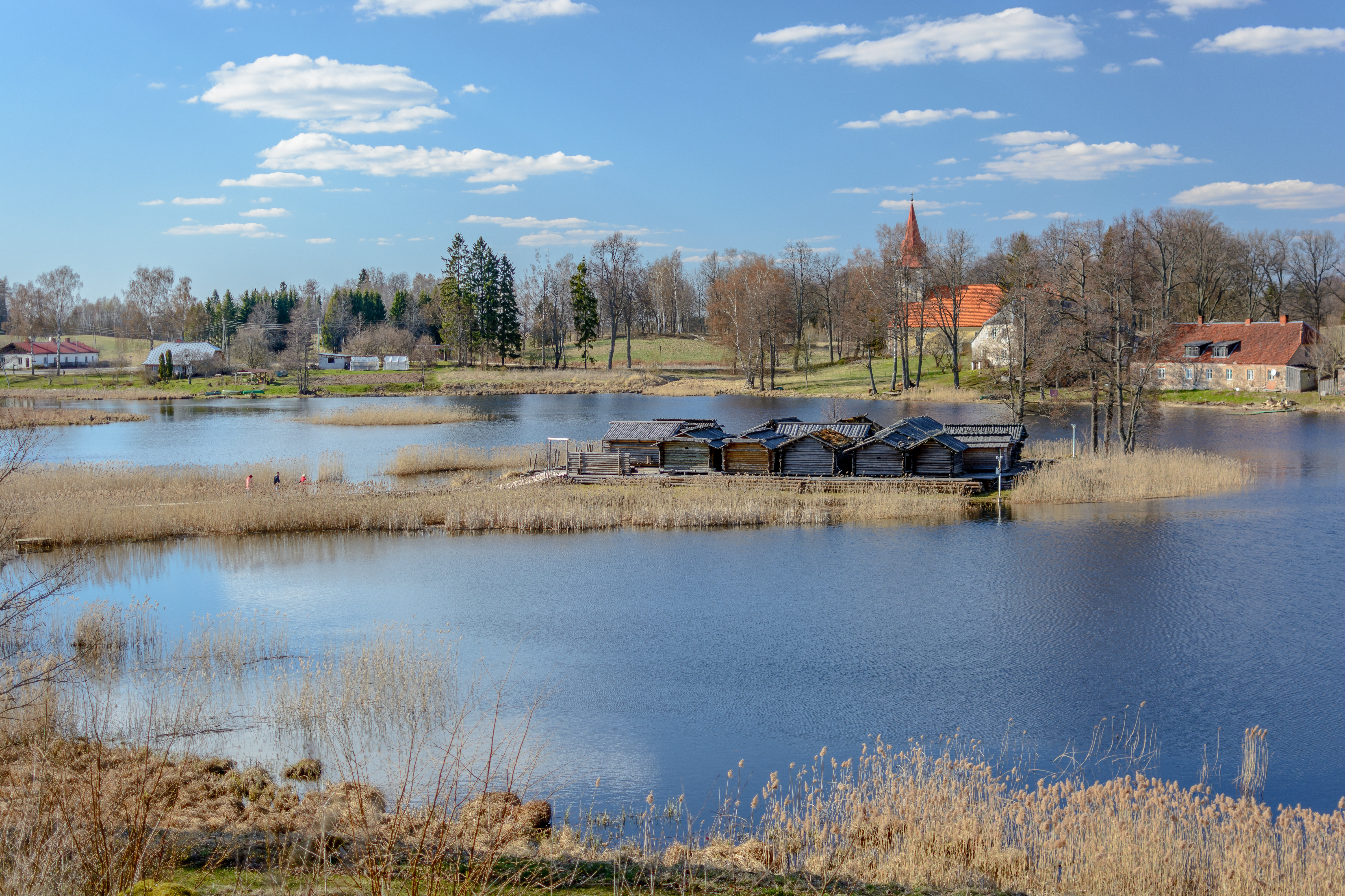 Araishi lake fortress